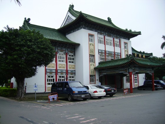 Jing Xing Hall, The First Funeral Parlor, Taipei Mortuary Services Office.